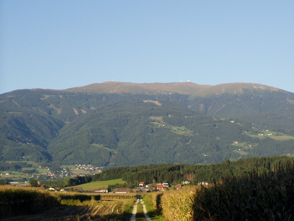 Koralpe (mountain) seen from the Lavanttal